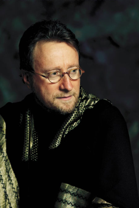 Cantor Ehud (Udi) Spielman